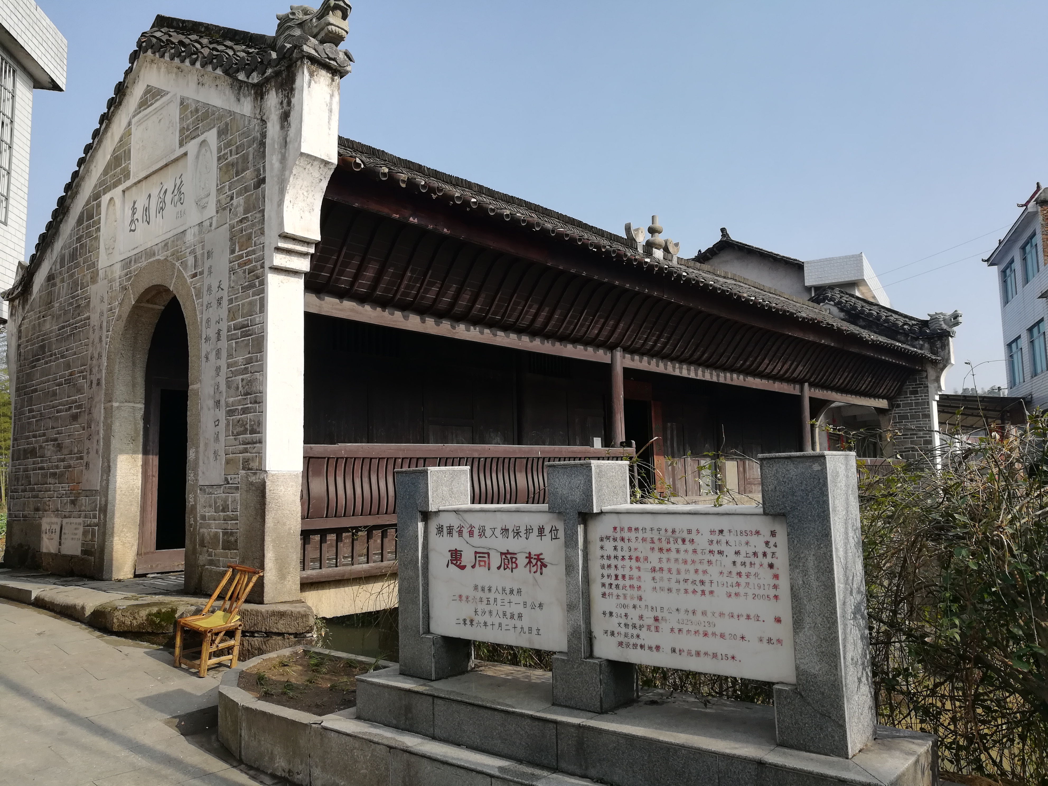 The Huitong Langqiao at Shatian Township, Ningxiang, Hunan, China.